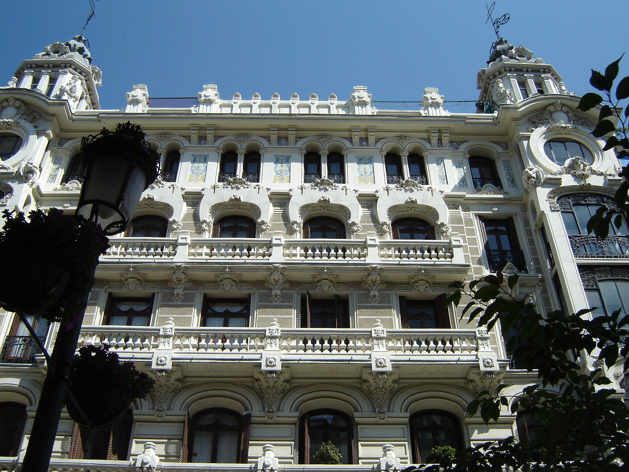 Former Compañía Colonial building, at 16 Calle Mayor (street) in Madrid (Spain). Façade was projected by Miguel Mathet Coloma and Jerónimo Pedro Mathet Rodríguez, and built from 1907 to 1909.